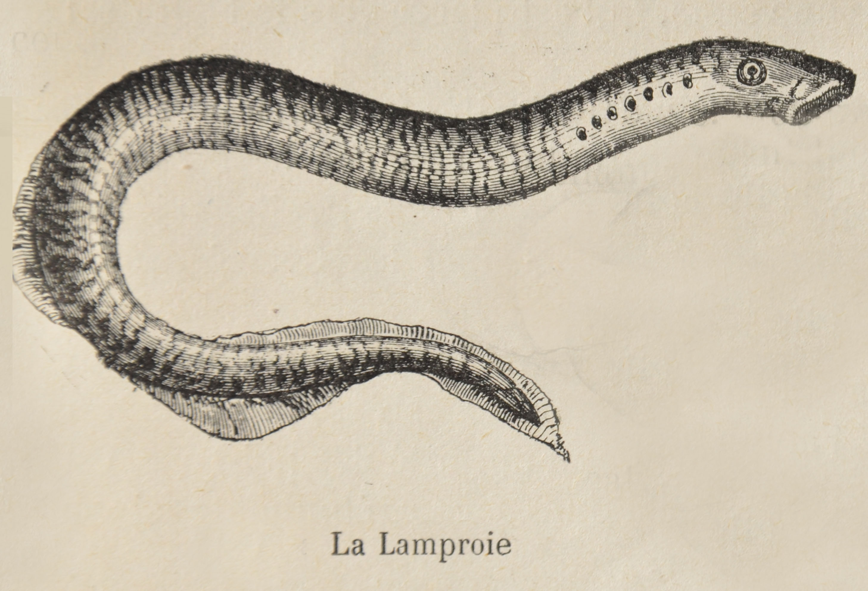 Reproduction of an old engraving (anonymous) used as illustration in an article about lamprey (1912) ; (F. Barthélemy Les lamproies, Le Cordon Bleu, n° 685, Paris, 15 Décembre 1912)